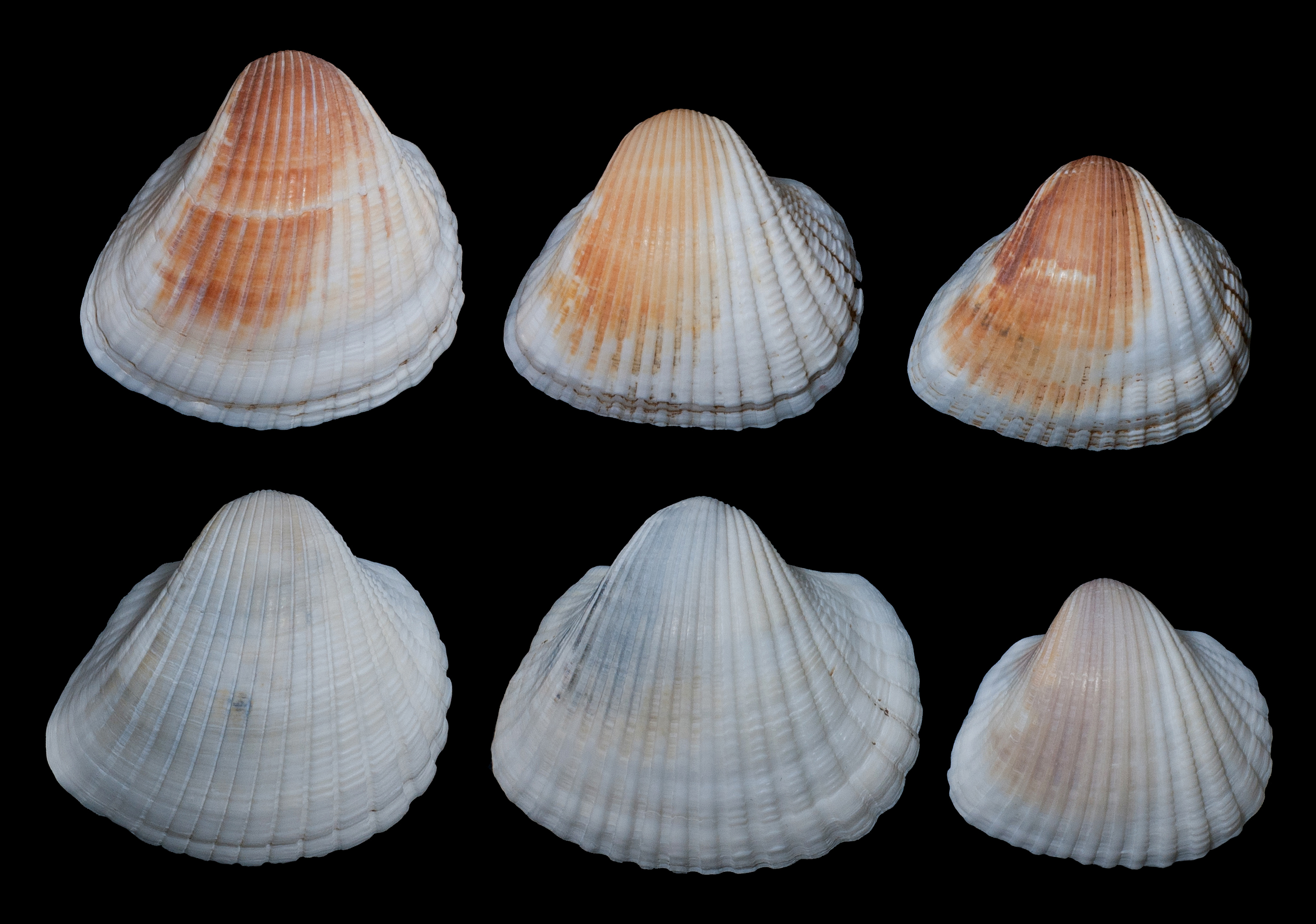 Anadara brasiliana from La Restinga Bay, Margarita island